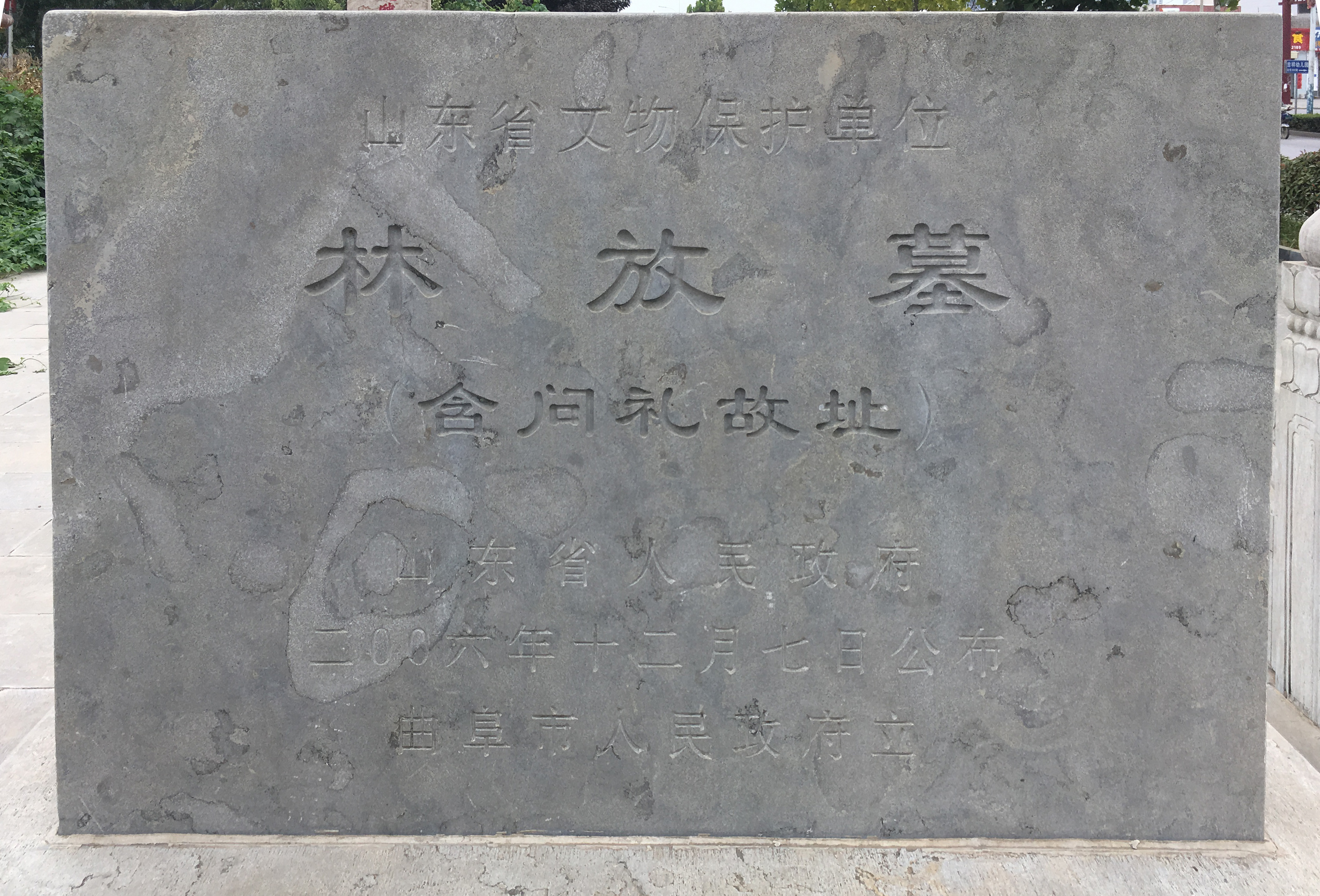 Tomb of Lin Fang, located in Qufu, Shandong, China. Shown in picture is the plaque of "Historical and Cultural Site Protected in Shandong Province".